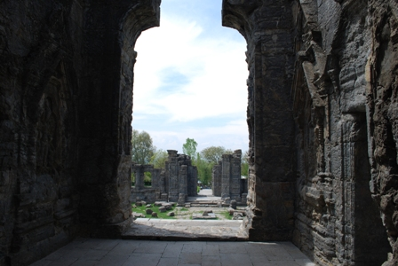 Martand Sun Temple